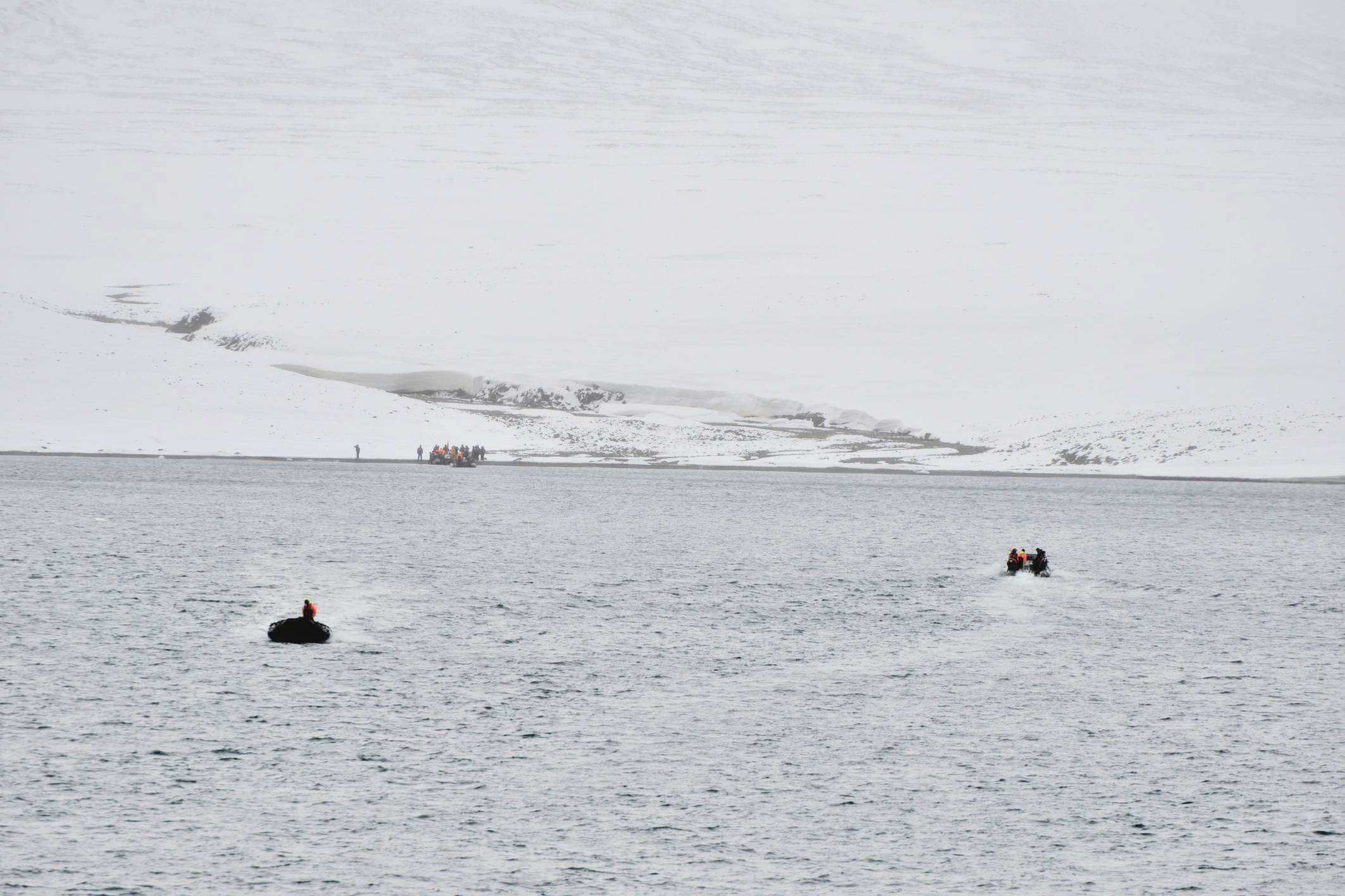 Krenkel Bay (Komsomolets Island, Severnaya Semlya, Russia; 80°30’N, 96°44‘E)